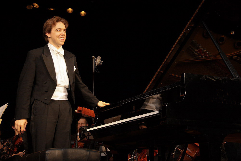 Ingolf Wunder, pianist. XVII International Music Festival of Krystyna Jamroz, Busko-Zdroj, 6 July 2011